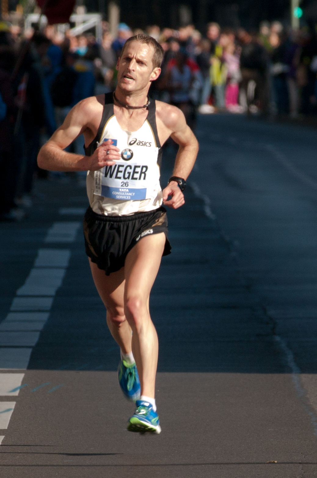 Austrian runner Roman Weger at the Berlin Marathon 2012 passing Kleistpark between Kilometers 21 and 22.